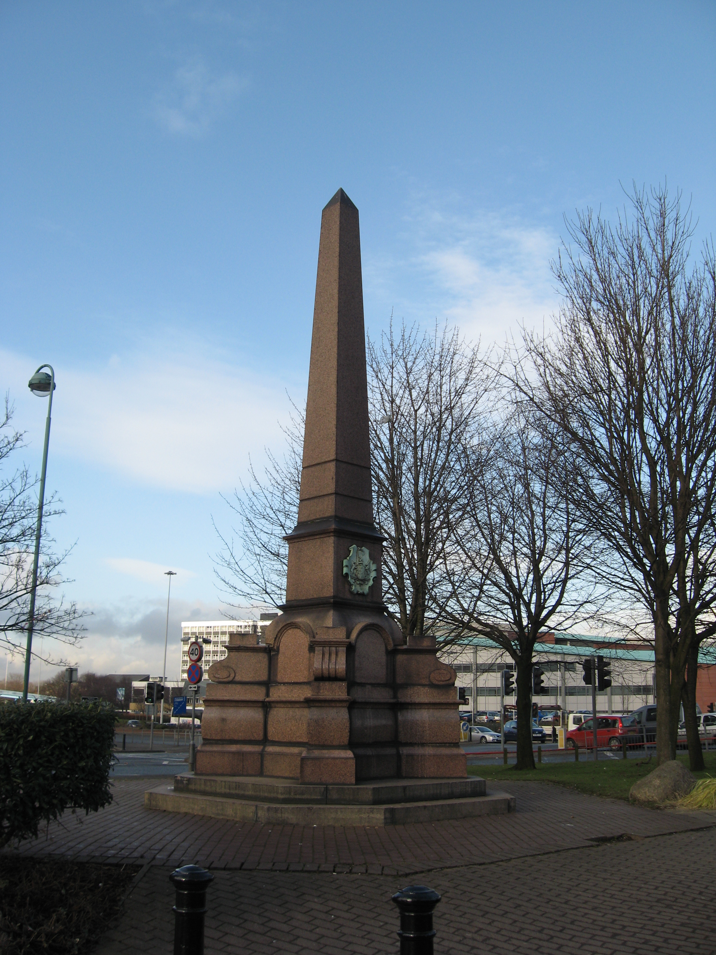 The Oliver Heywood Memorial, Salford The memorial comprises a red granite obelisk. Four bronze panels are attached to the lower section of the shaft depicting respectively Oliver Heywood and the arms of Salford and the Heywood family. It was unveiled on 28 October 1893. Oliver Heywood (September 9, 1825 – 1892) was an English banker and philanthropist. Born in Manchester, the son of Benjamin Heywood, and educated at Eton College, Heywood joined the family business, Heywood's Bank in the 1840s. Heywood sponsored many philanthropic causes, including Manchester Mechanics' Institute, Chetham's Hospital, Manchester Grammar School and Owens College. and